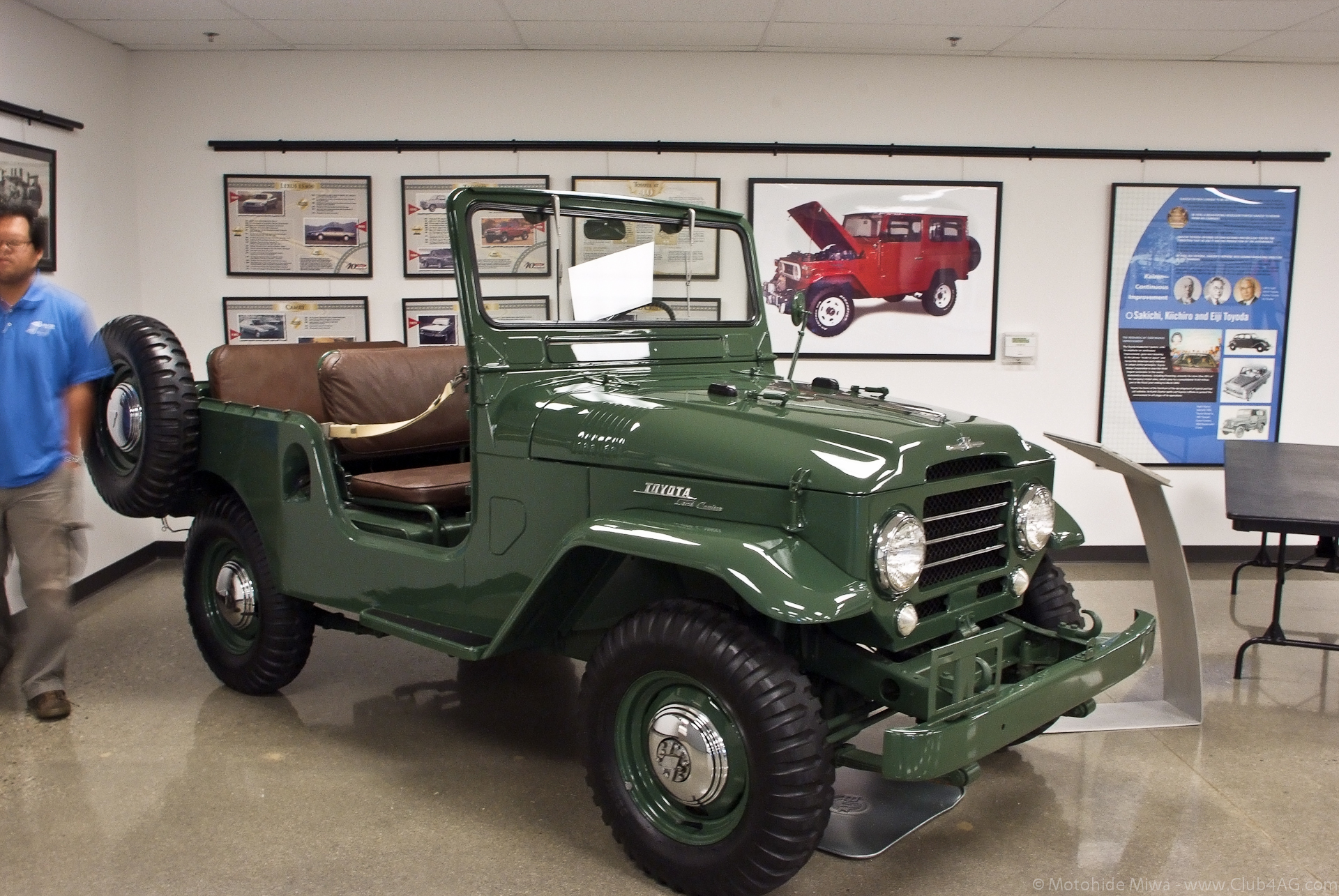 Toyota FJ25 Military Mobility Vehicle